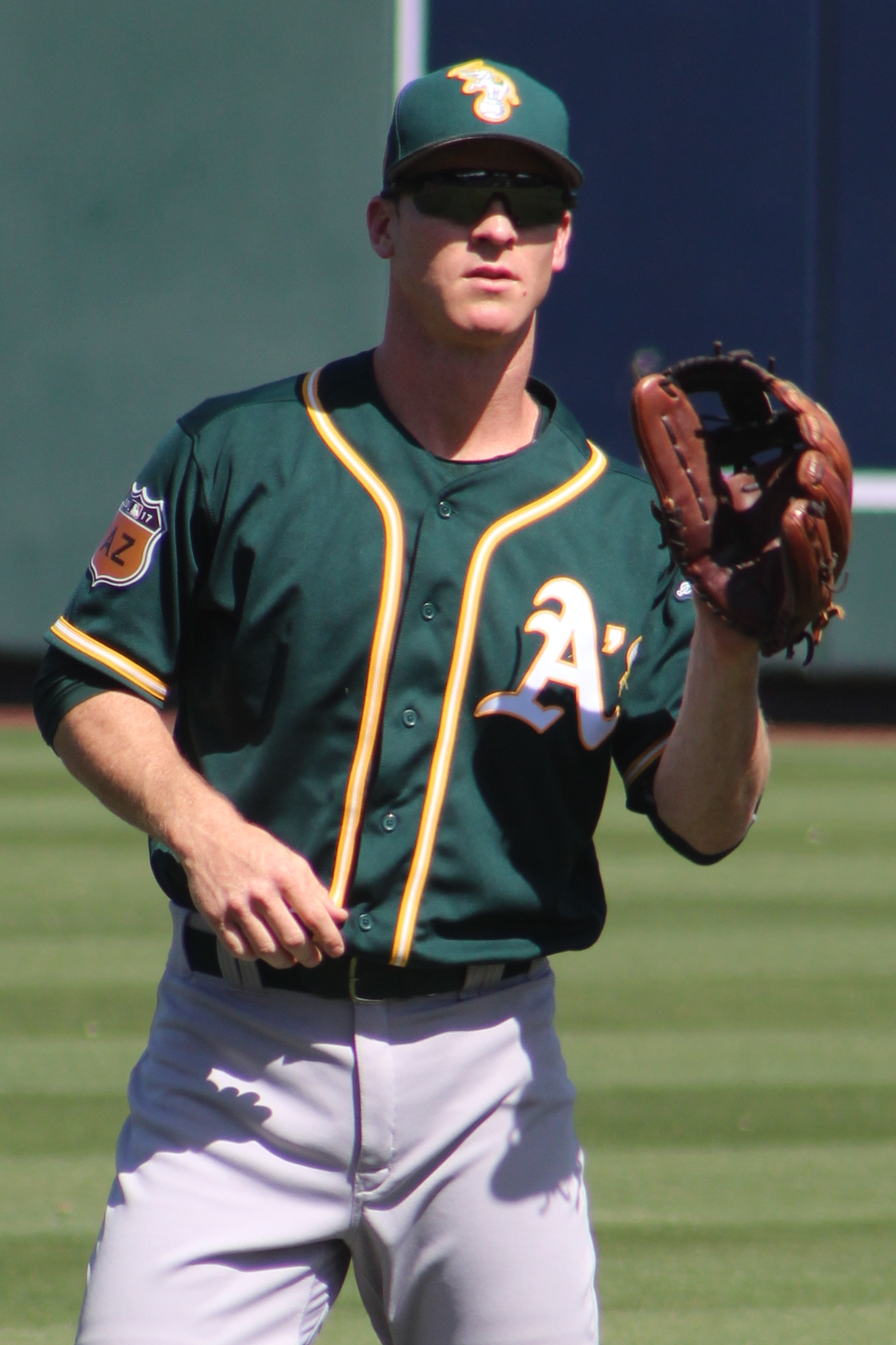 Second baseman Joey Wendle - Oakland A's at Arizona Diamondbacks: Spring Training - 3/7/17